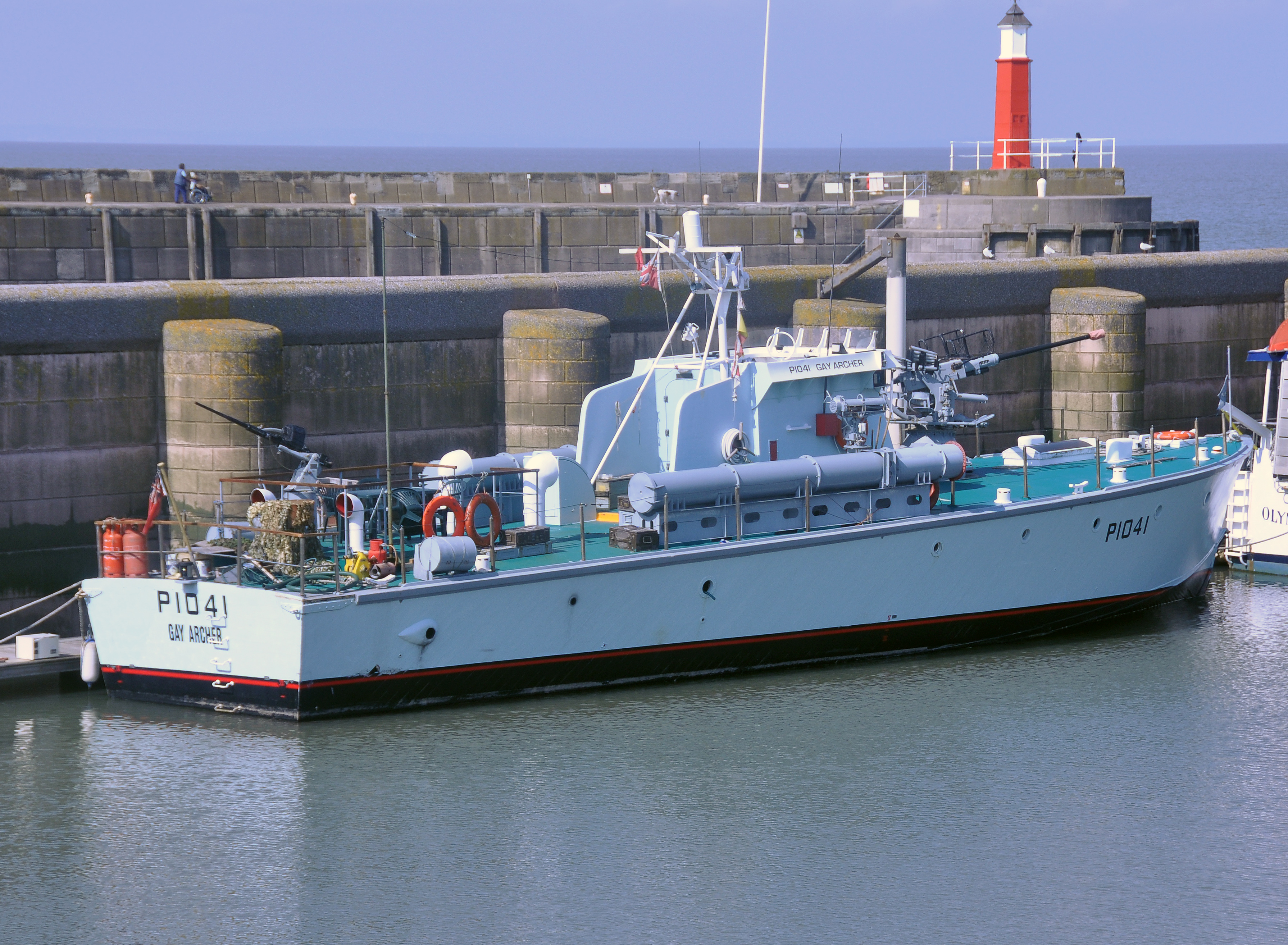 HMS Gay Archer in Watchet harbour, Somerset.